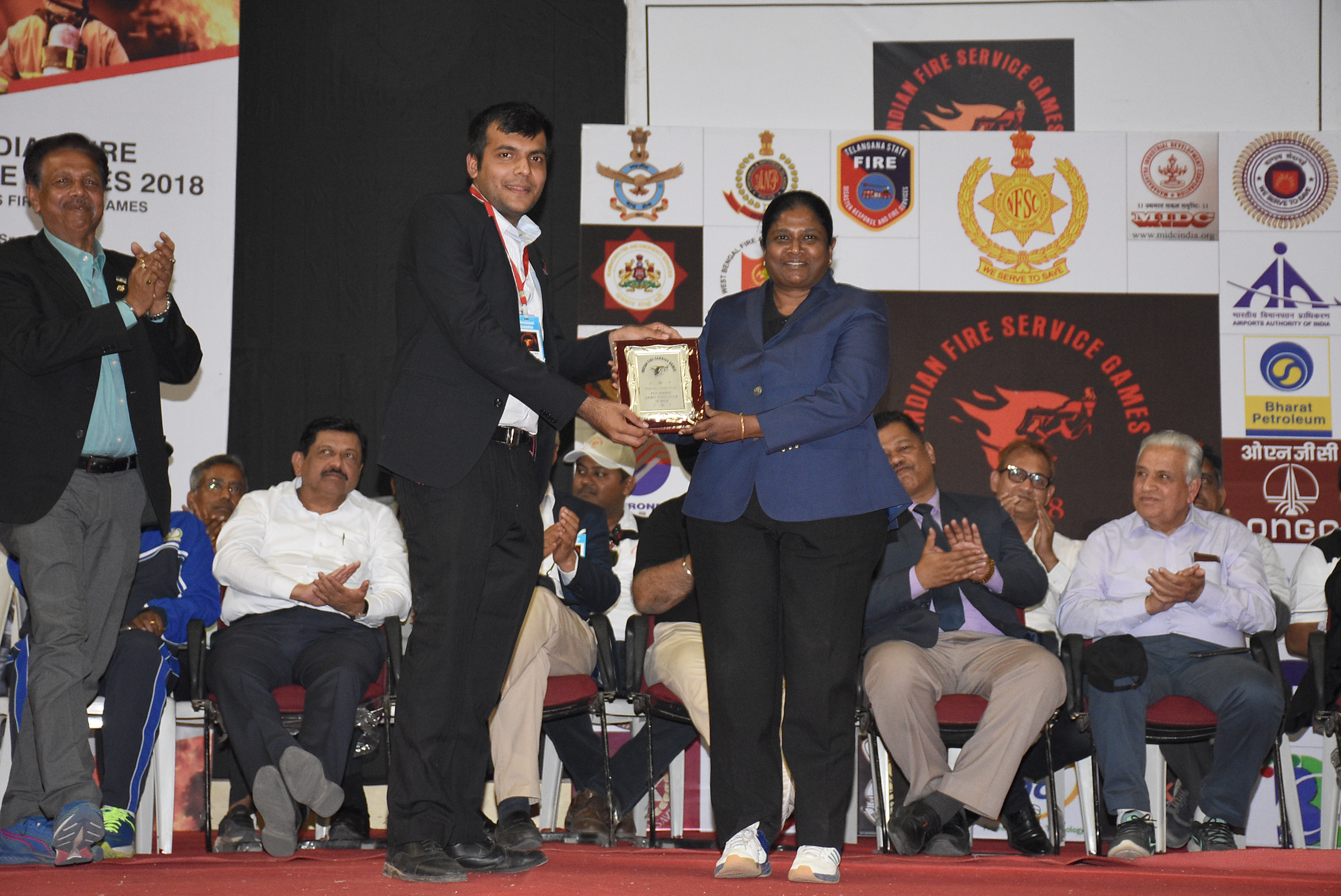 National Fire Games-2018